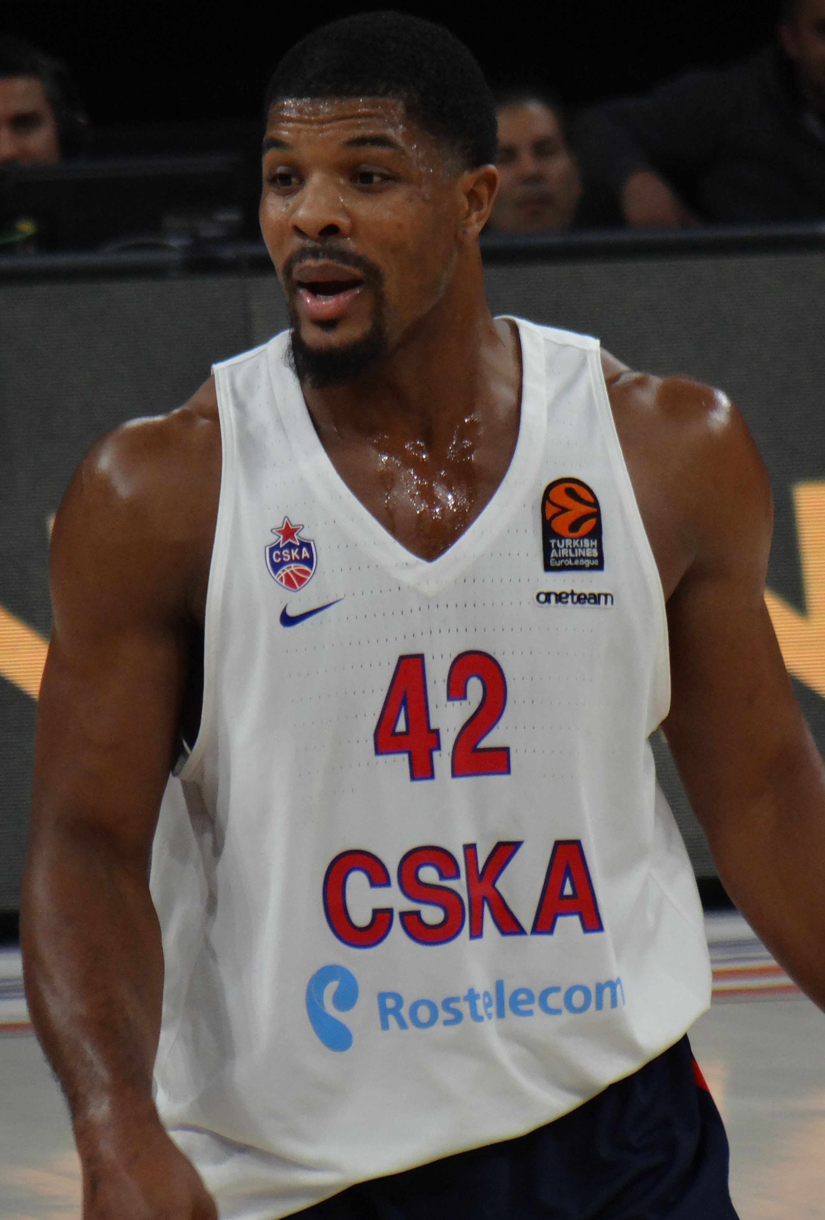 Kyle Hines 42 PBC CSKA Moscow 20171027